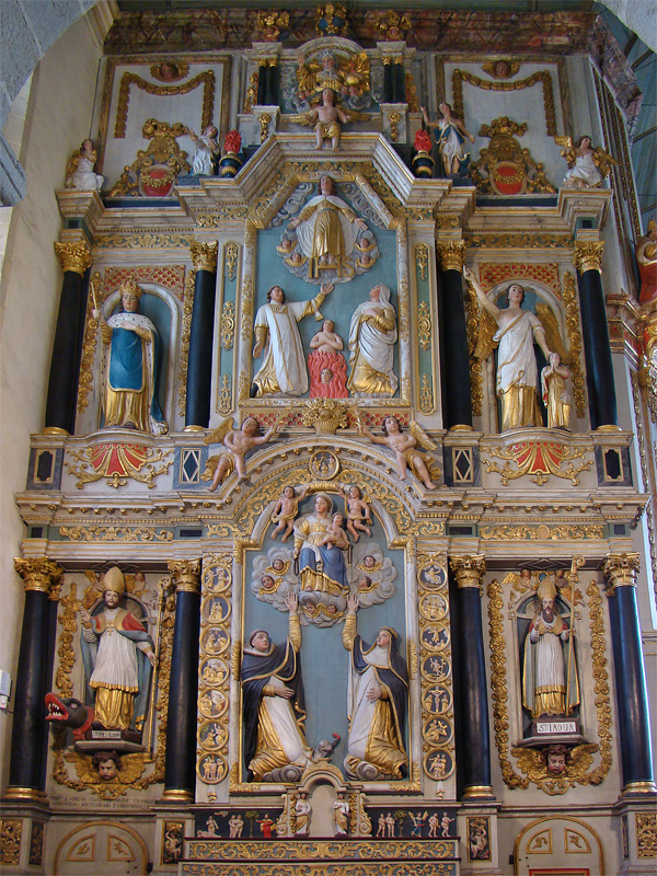 Notre-Dame Church, Saint-Thégonnec, Finistère, Bretagne, France. Retable of the Rosary, commissioned in 1697 to Jacques Laispagnol and gilded in 1700 by Gilles Bunel, both from Morlaix.